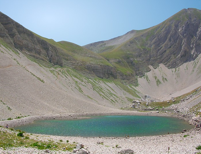 Monte Vettore and Lago Pilato picture taken by user Idéfix July 2005